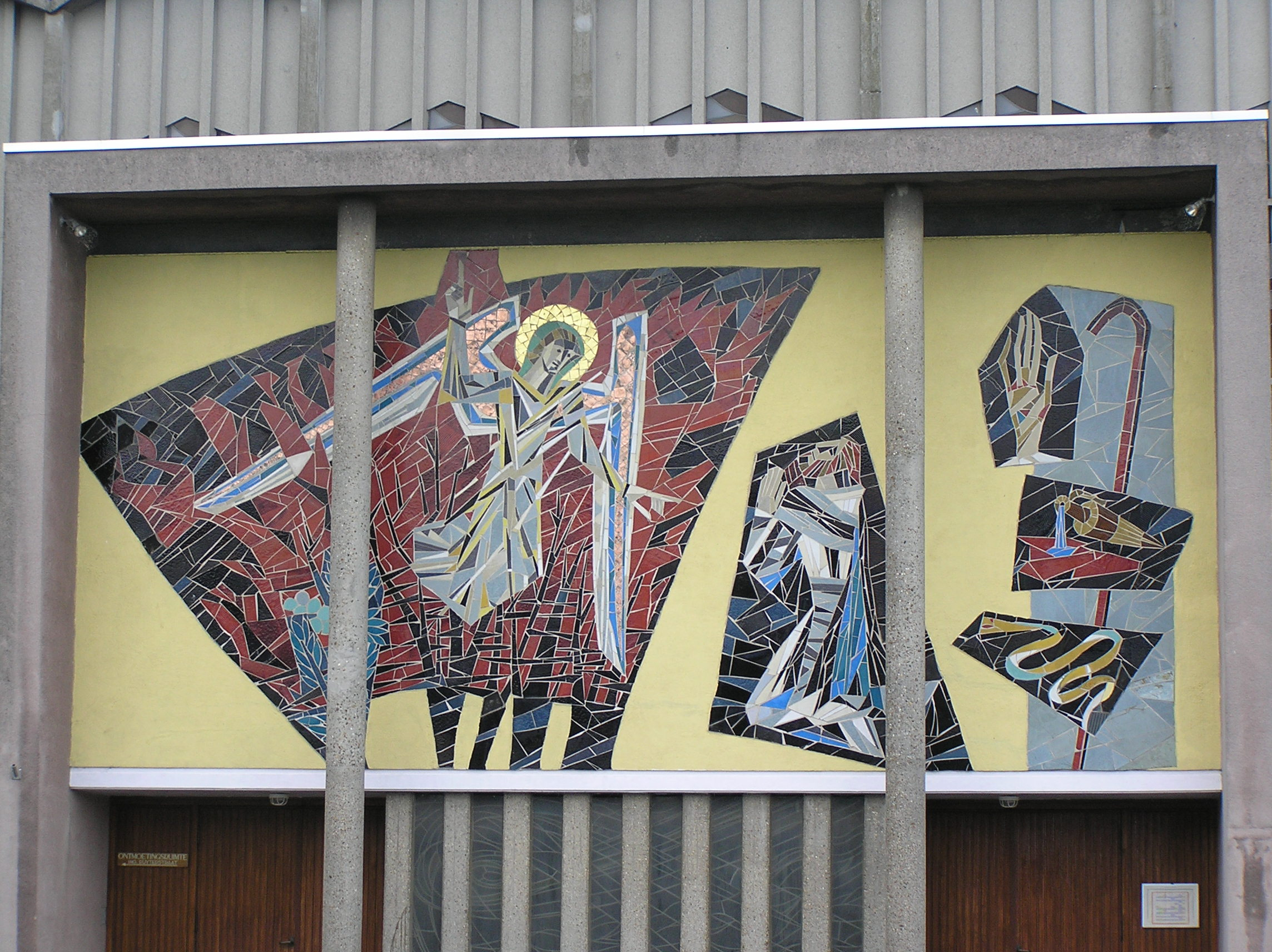 Mosaic of 'God Appears to Moses in Burning Bush' at the facade of the Heilige Kruis kerk (Holy Cross church) at the Liendertseweg in Amersfoort, The Netherlands